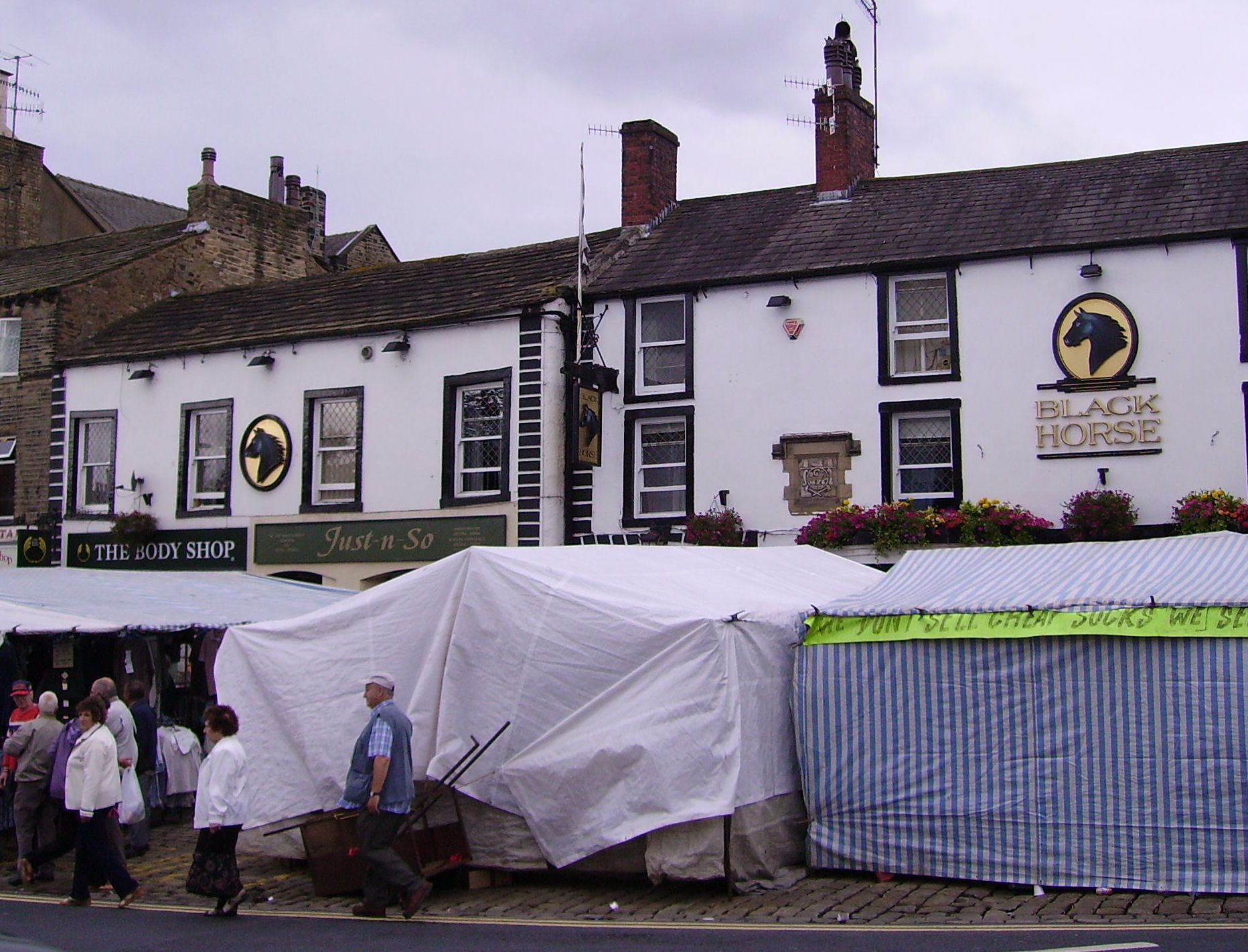 view of Skipton in North Yorkshire, United Kingdom